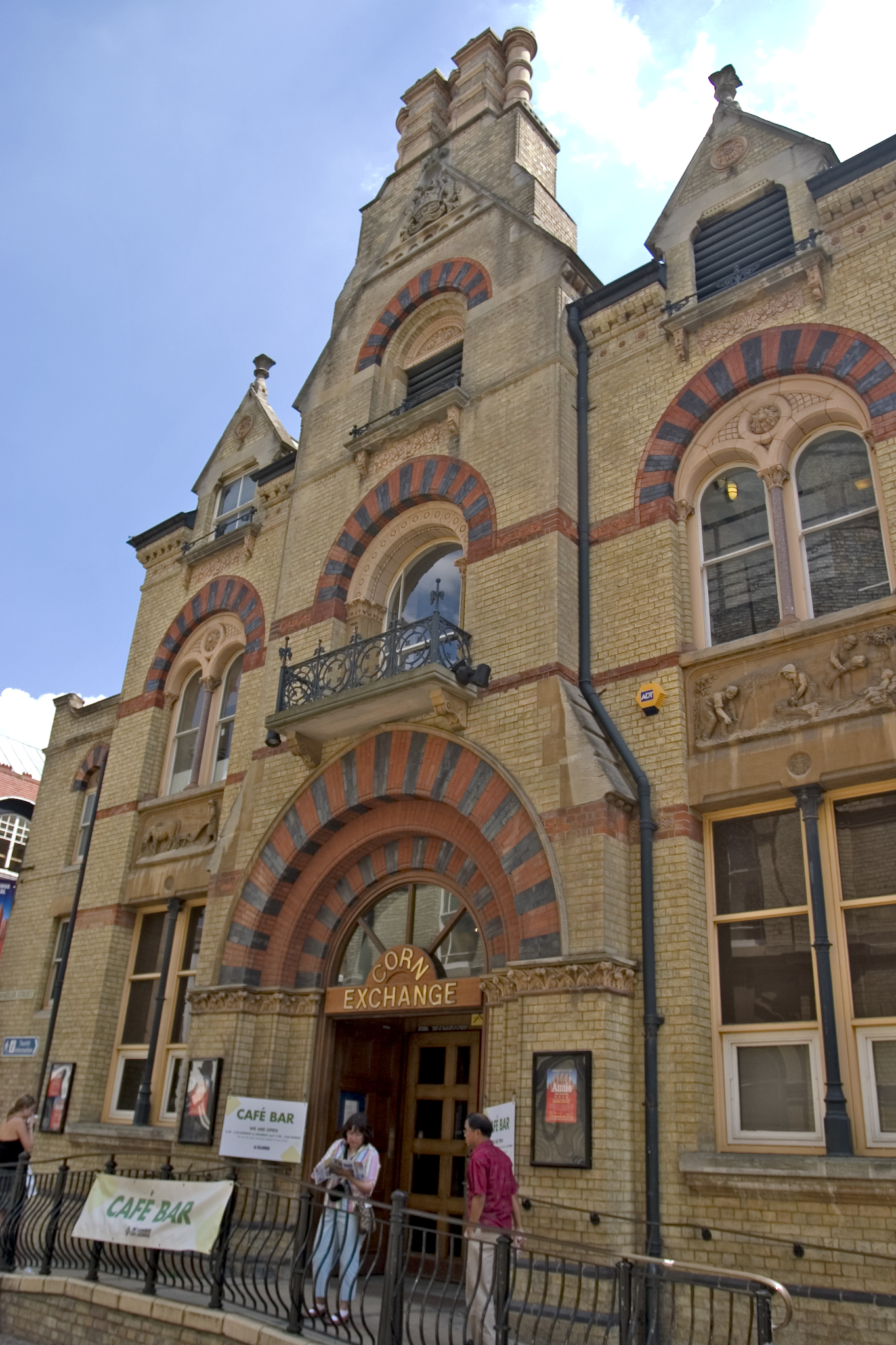 Cambridge Corn Exchange photographed by Lin Mei, July 2006. source